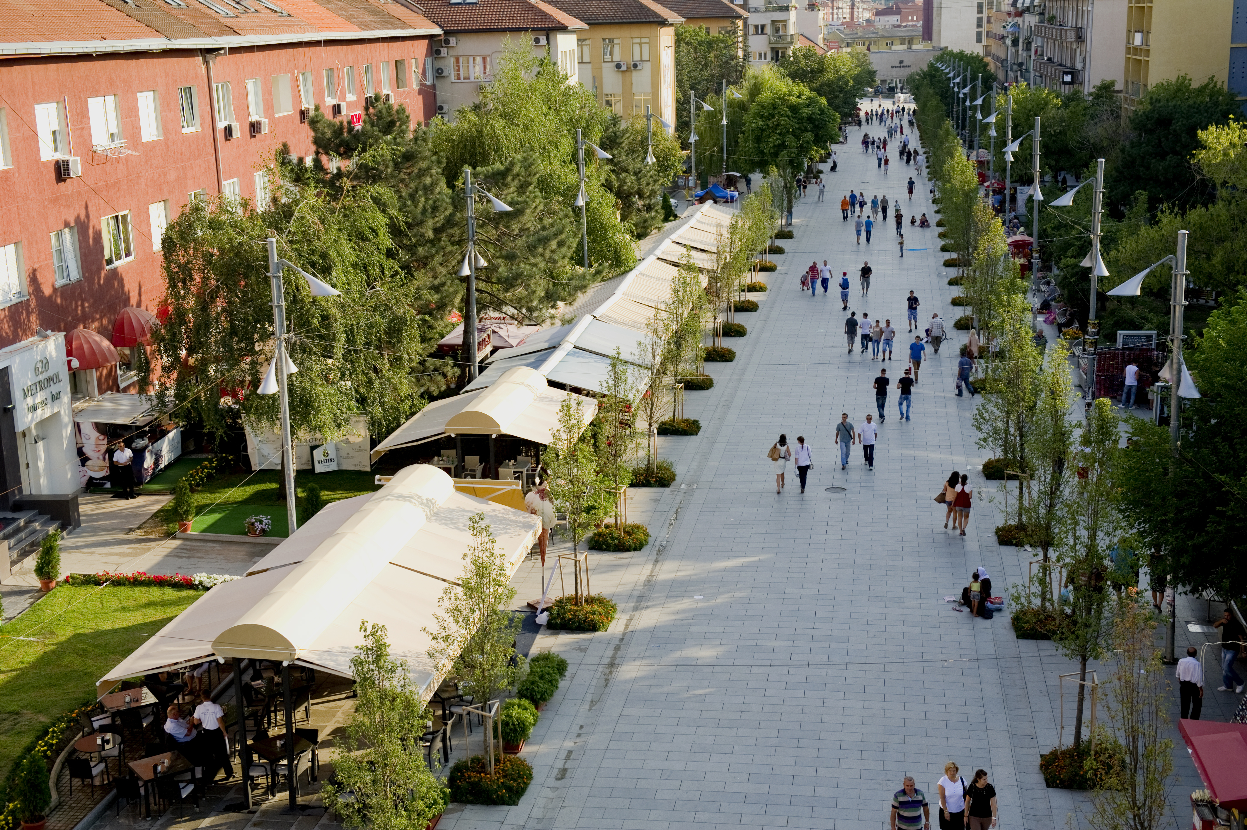 Sheshi 6